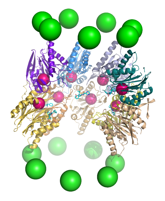 cutaway view of PDB ID 1G0U. See image below for more complete description